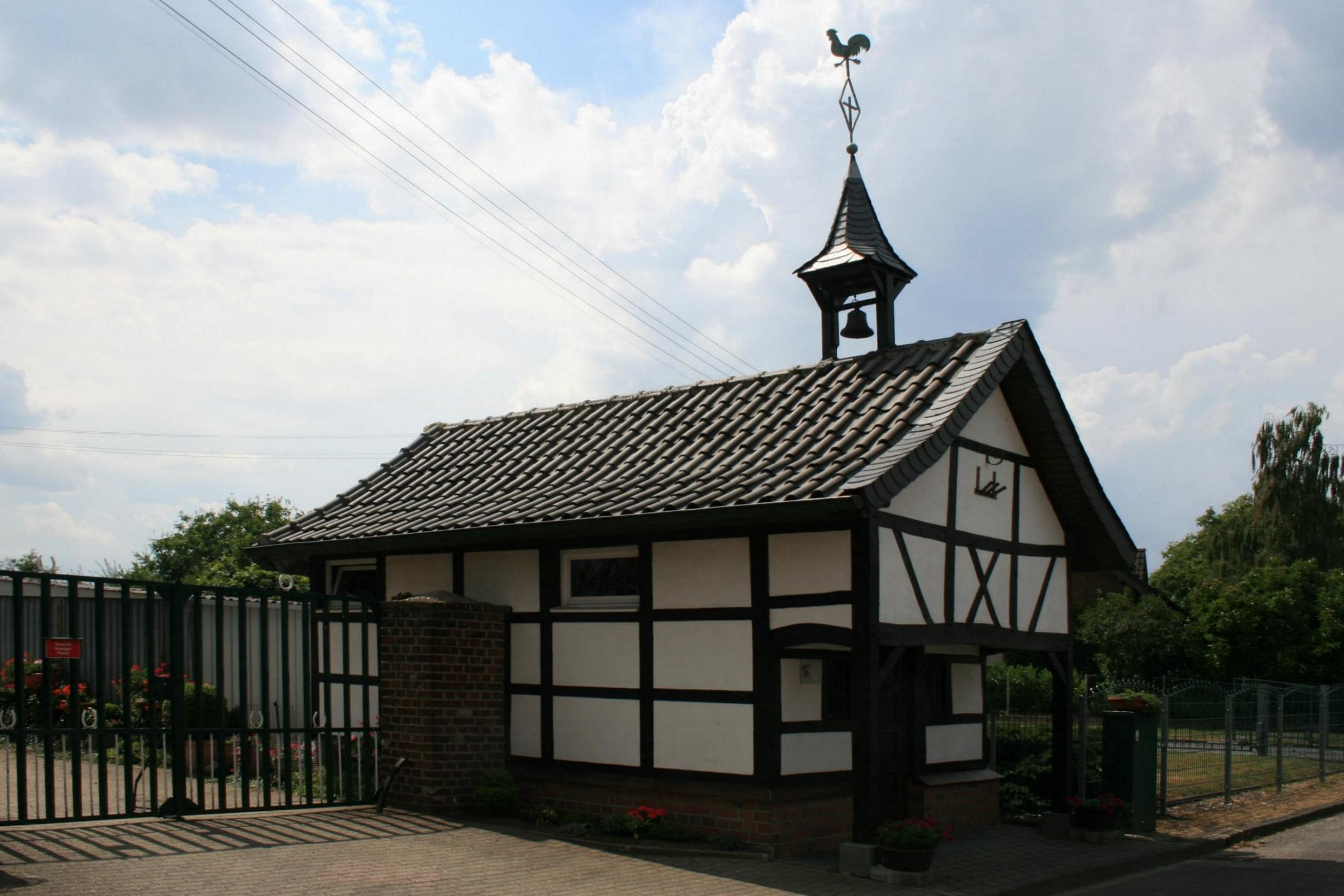 Cultural heritage monument No. K 034 in Mönchengladbach